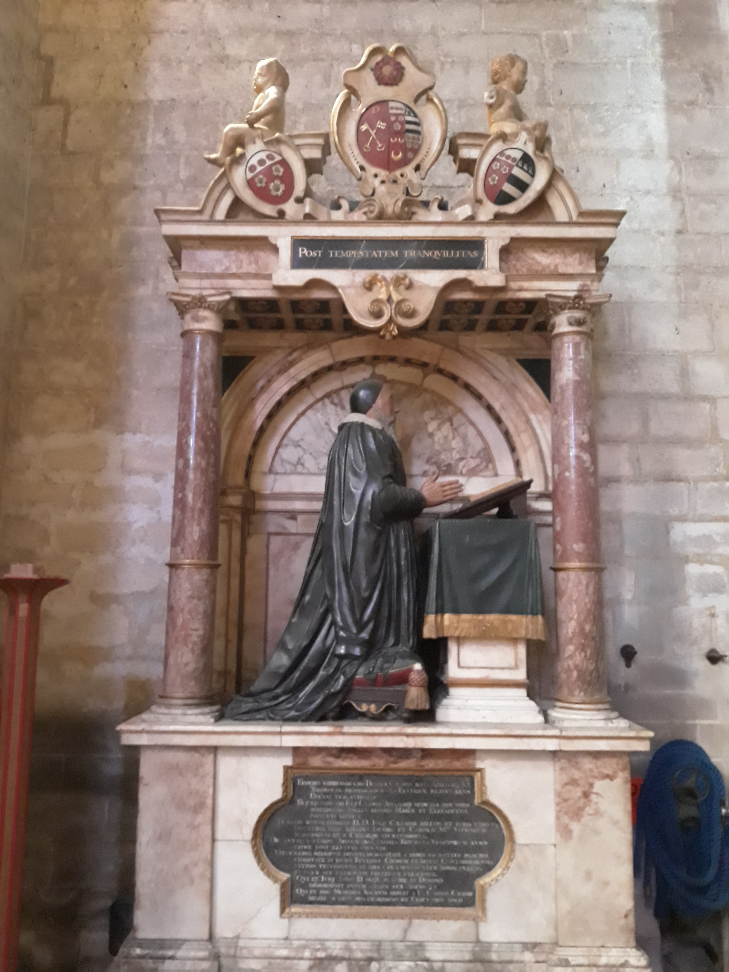 Ely Cathedral, Cambridgeshire, England. Henry Caesar (1562?–1636), Dean of Ely, fifth and youngest son of Giulio Cesare Adelmare, the Italian physician to Queens Mary and Elizabeth, and brother of Sir Julius Caesar. See[1]